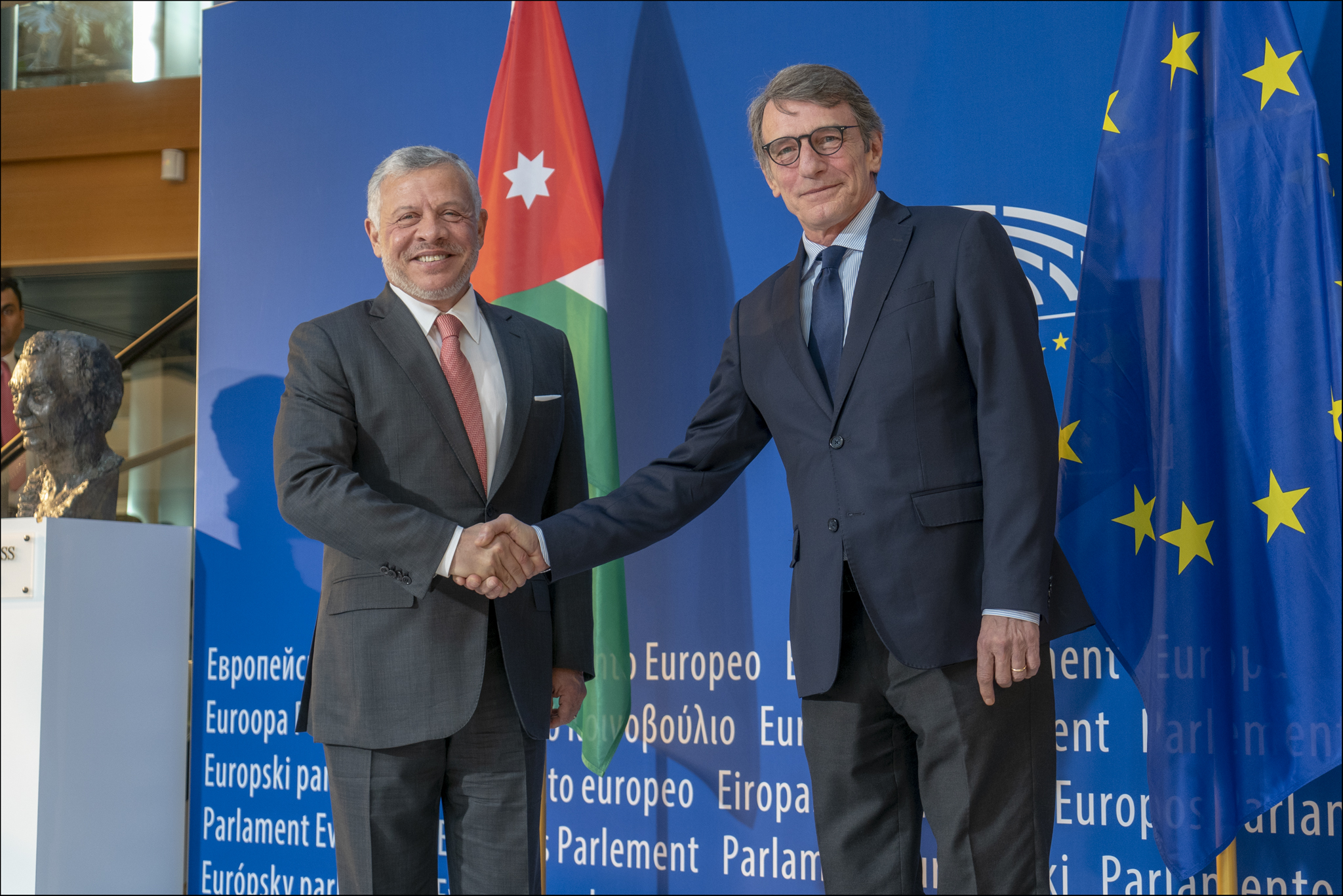 “Peace-making is the harder but higher path,” said King Abdullah II of Jordan addressing the European Parliament in Strasbourg today.